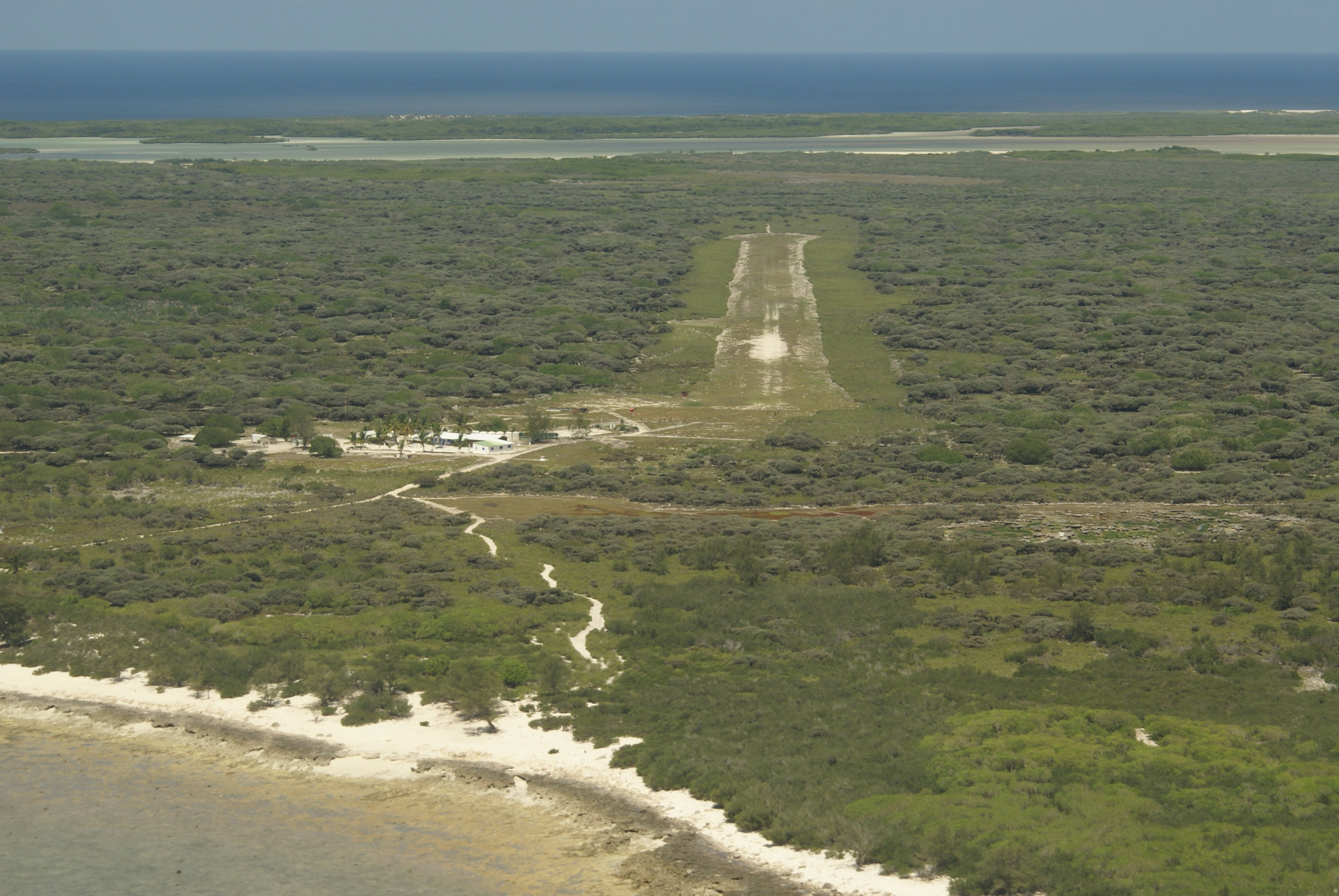 The airstrip of Europa Island